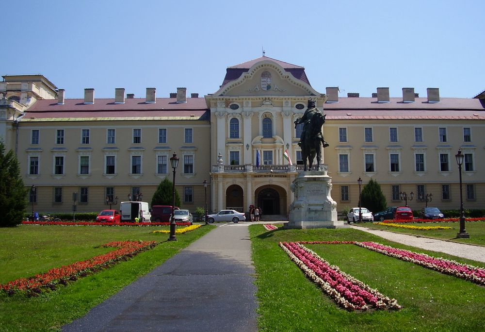 The central building of the Szent István University.